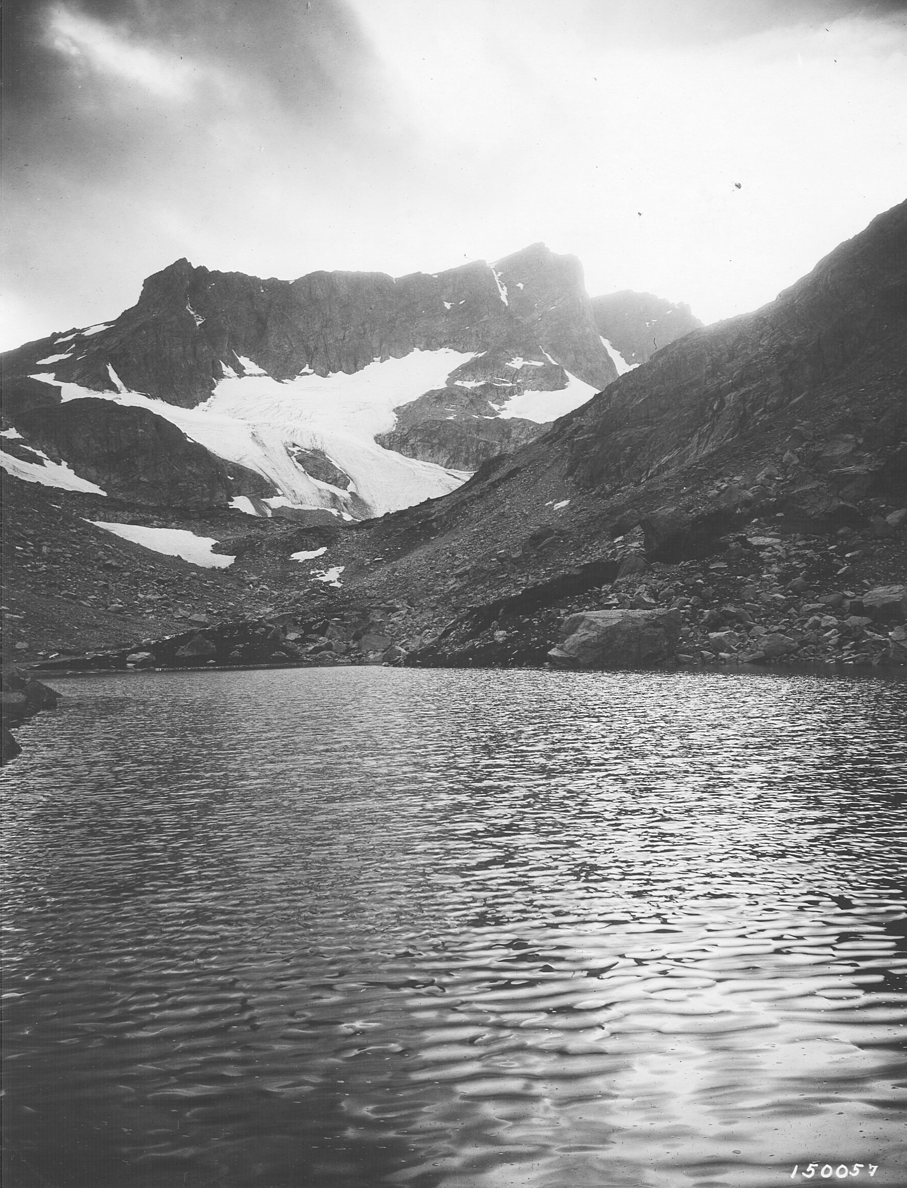 Photographer and date unknown. Beartooth National Forest. Snow scenes - Lake & Glacier.